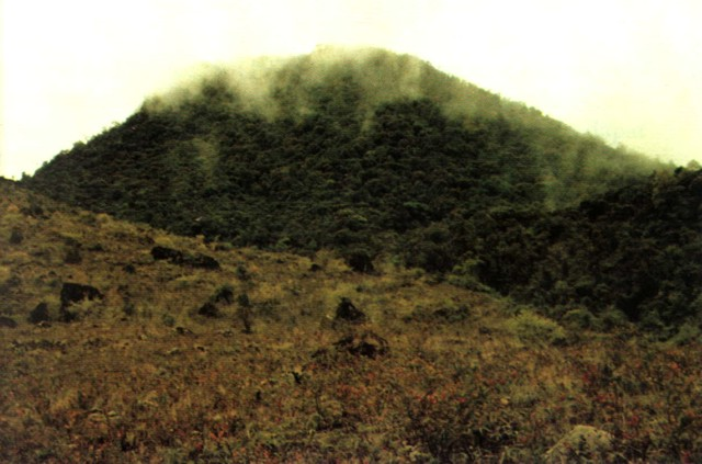 Thin clouds drape one of four summit peaks of Peuet Sague volcano in NW Sumatra. This infrequently visited volcano lies several days' journey on foot from the nearest village. The first recorded historical eruption took place during 1918-21, when explosive activity and pyroclastic flows accompanied summit lava dome growth.